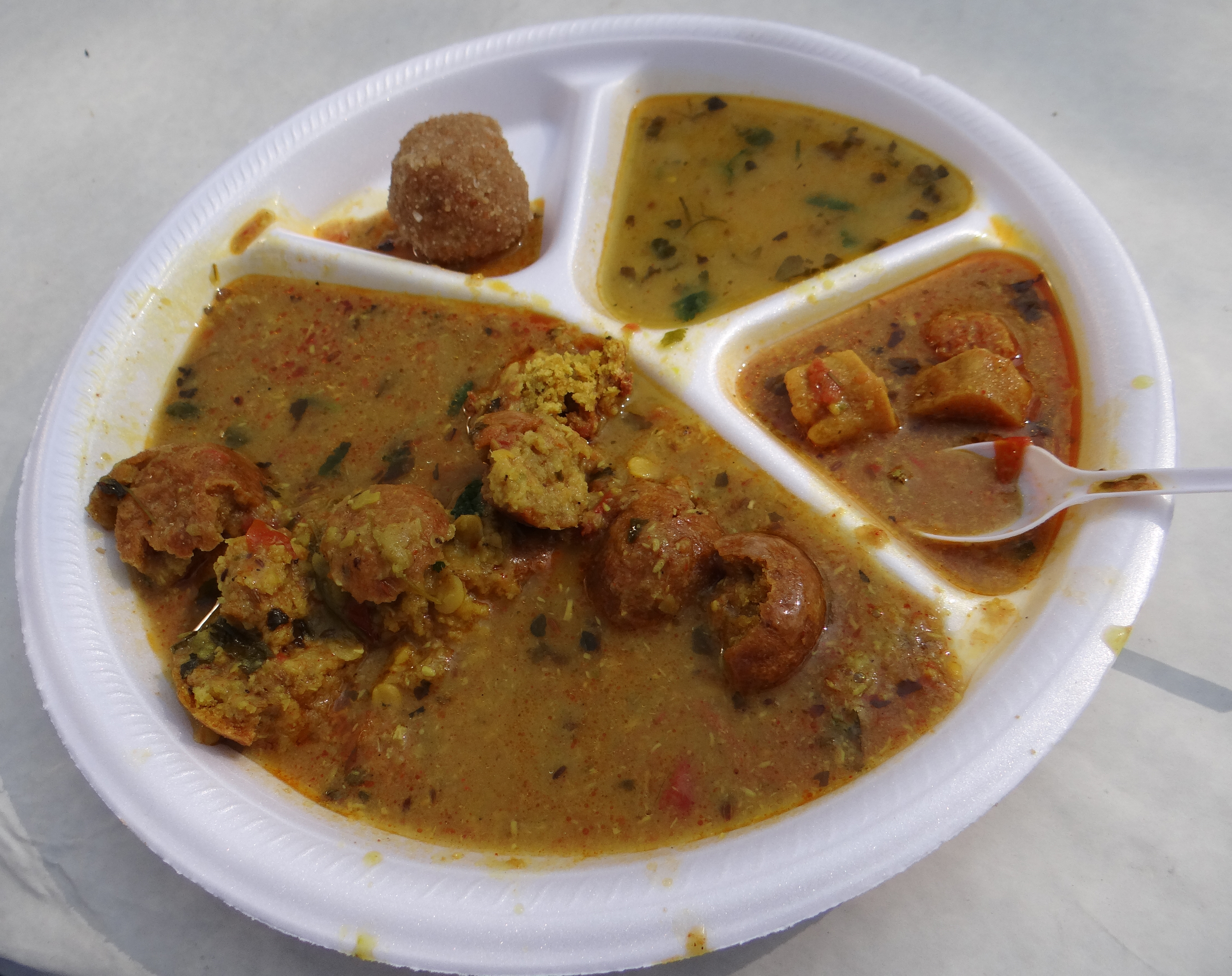 A traditional Rajasthani Thali Daal Baati, Gatta Ka Subzi, Muttri, Rajashthani Dal.